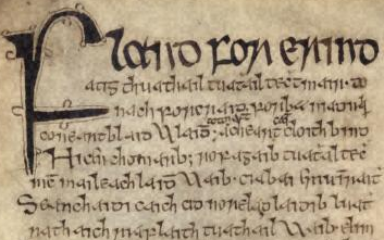 The opening lines of the poem Flann for Érinn (Flann over Ireland), written by Máel Mura Othna (died 887) in praise of Flann Sinna. From the Leabhar Mór Leacain (Book of Lecan), Royal Irish Academy manuscript RIA MS 23 P 2, folio 296 v. The work was written some time between 1397 and 1418. Scribe Adam ó Cuirnín copied the manuscript on the instruction of Gilla Isa Mor mac Donnchadh MacFhirbhisigh.